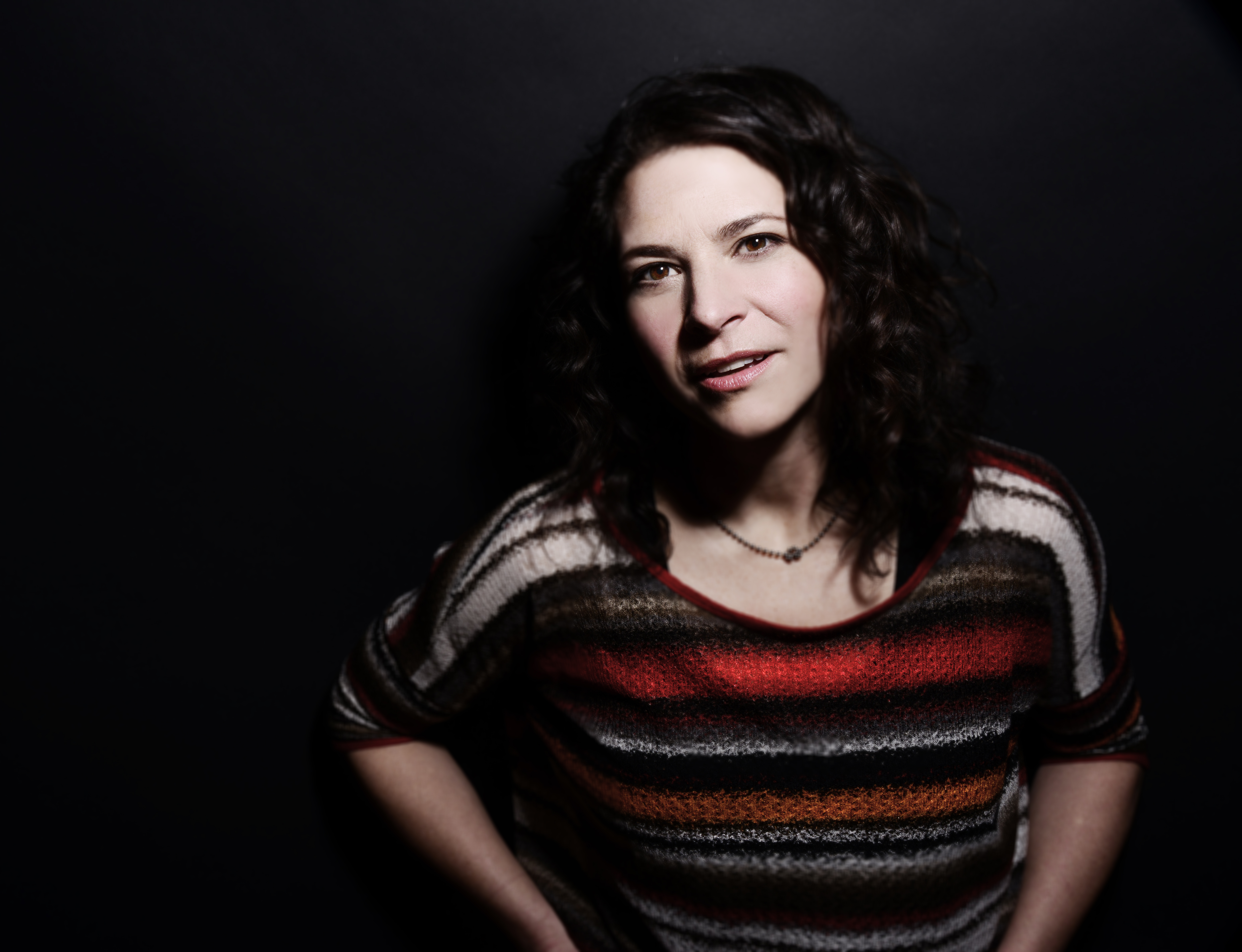 Kris Delmhorst by Shervin Lainez 2014